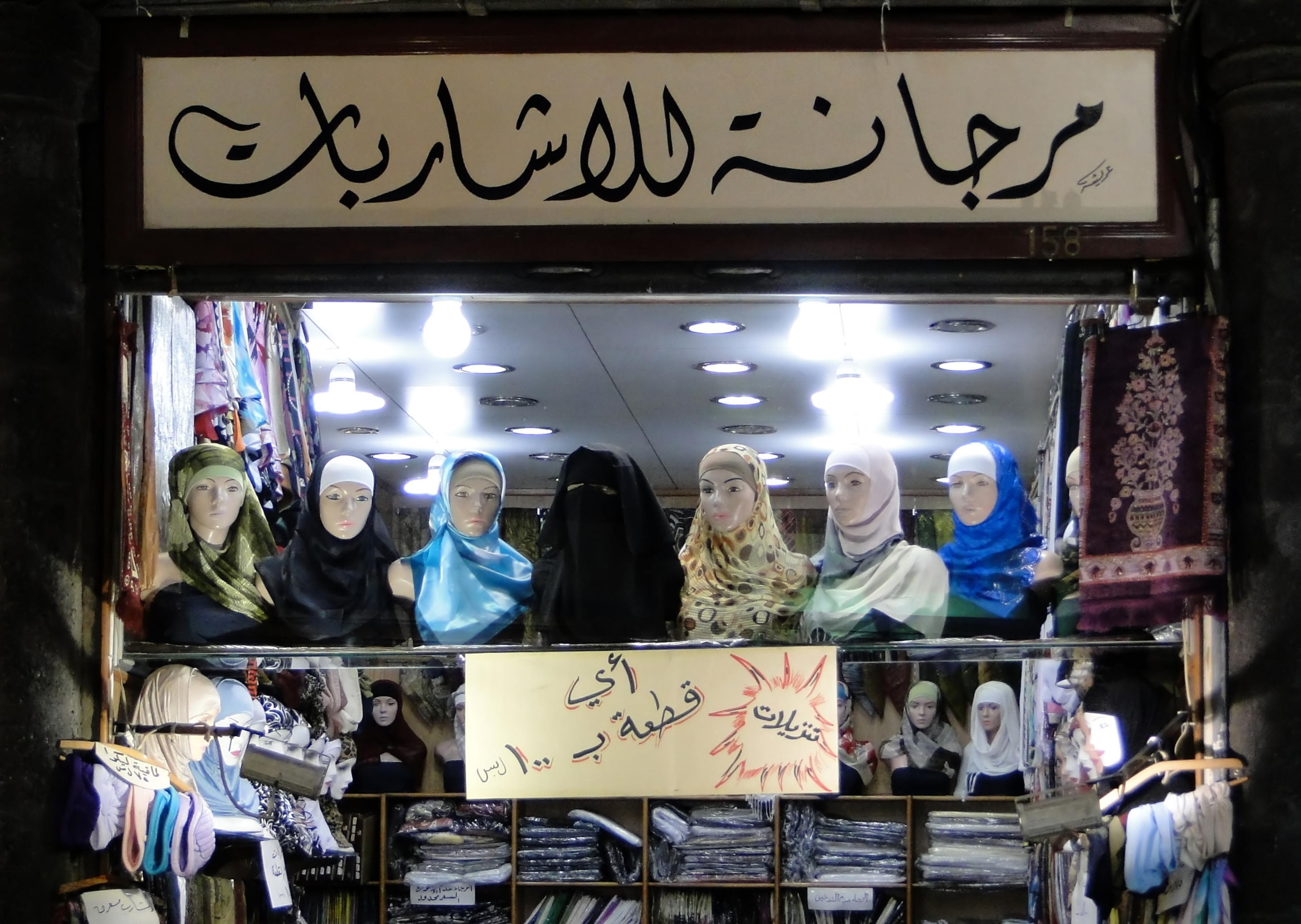 Store selling hijabs in Damascus, Syria